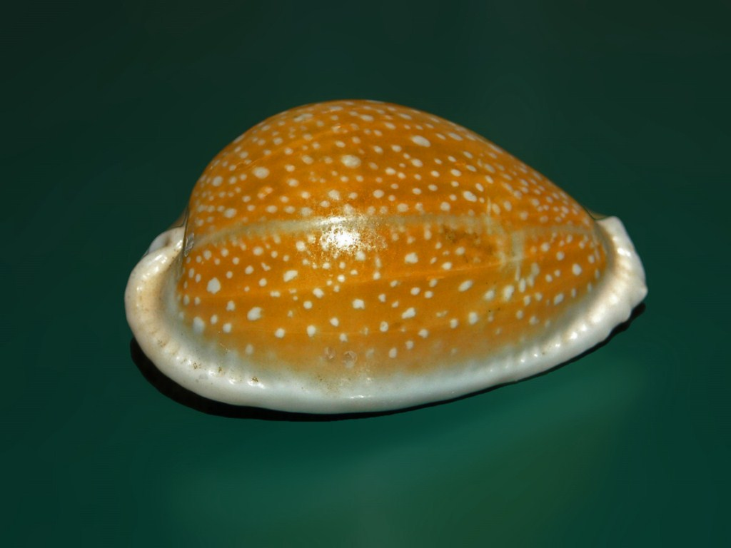 Naria miliaris